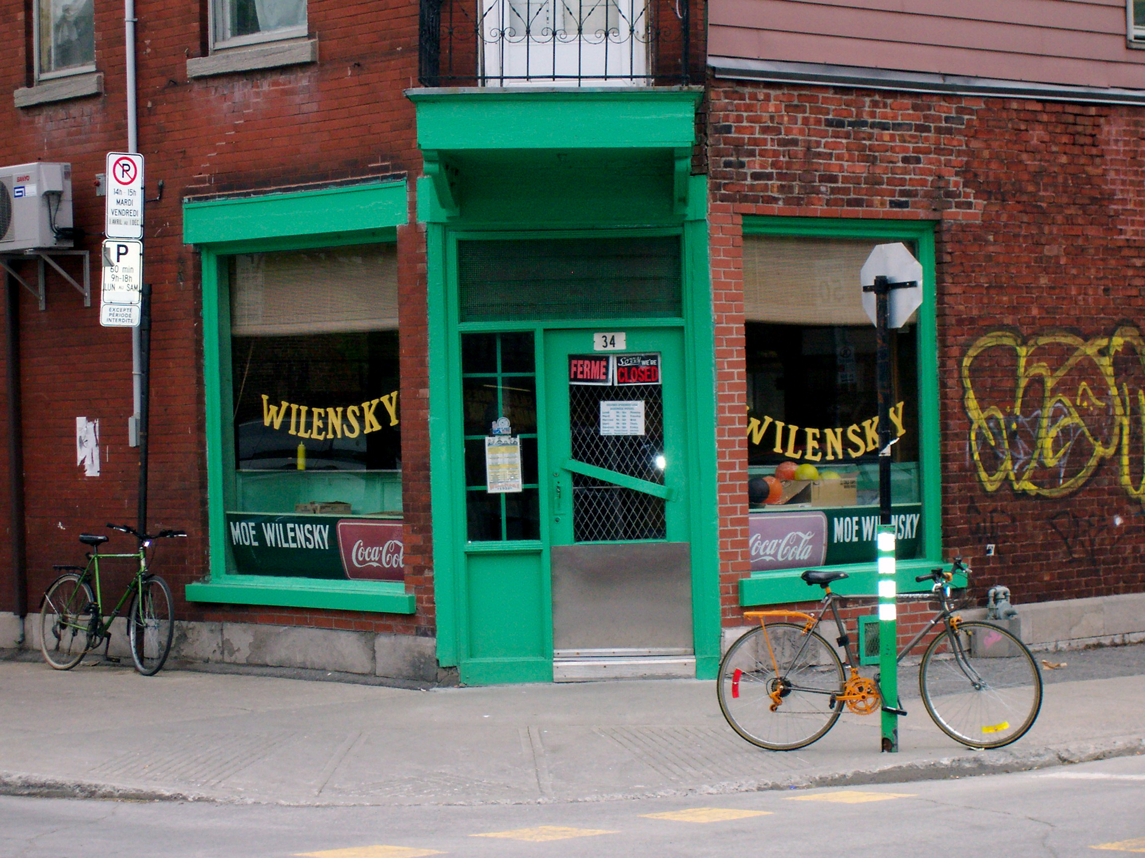 photo by Shawn Goldwater